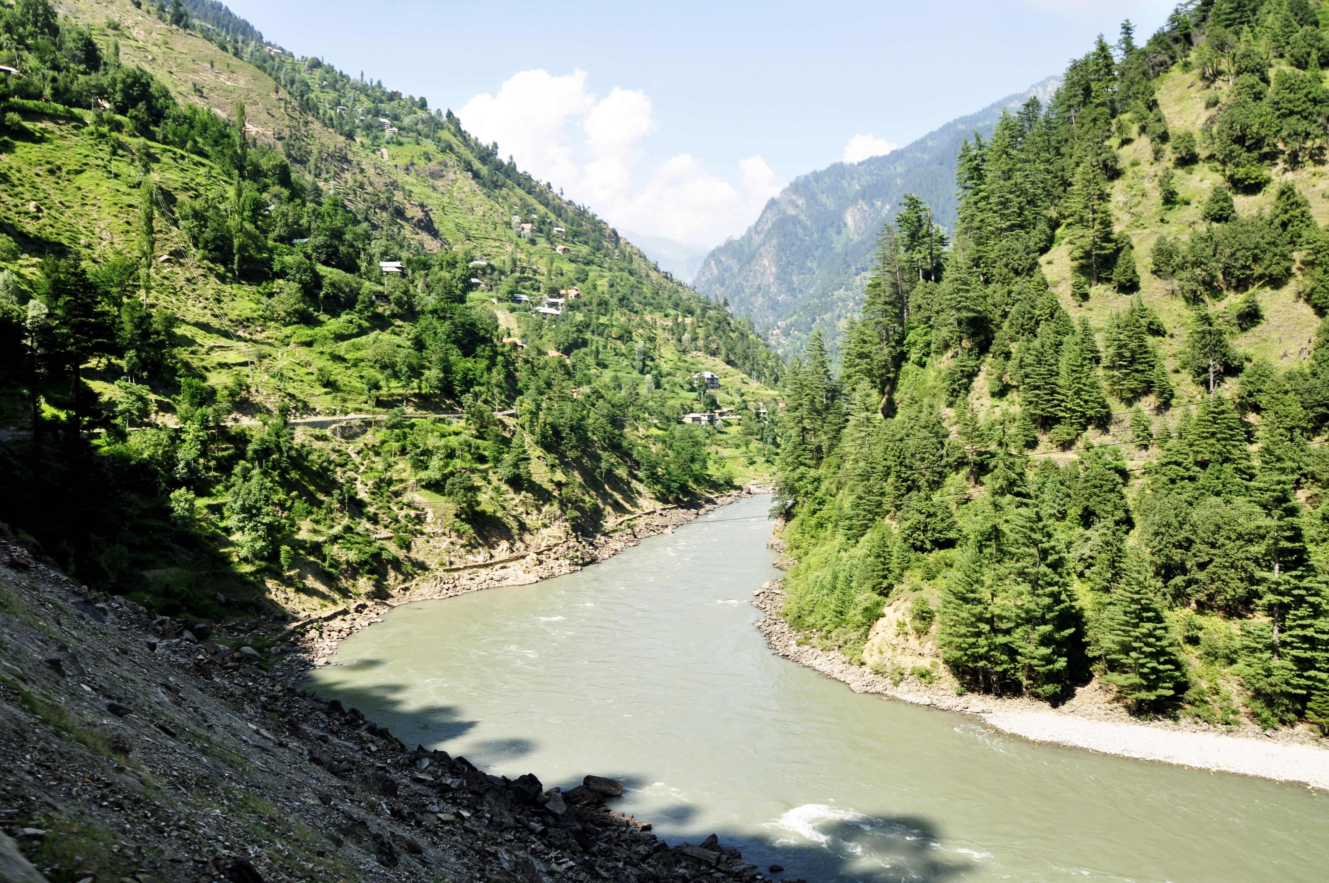 Neelam Valley AJK Pakistan